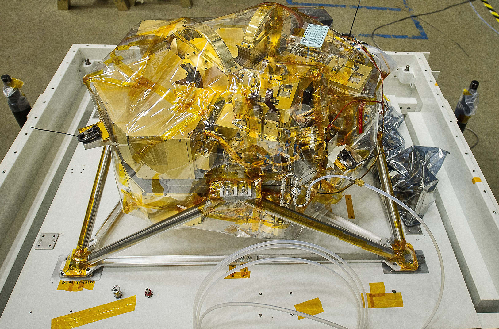 Webb telescope's NIRCam, close-up The optics module of the James Webb Space Telescope's primary imager, the Near-Infrared Camera, arrived at NASA’s Goddard Space Flight Center in Greenbelt, Md., on Saturday, July 27, 2013. This photograph shows the NIRCam optics module in a Goddard clean room.